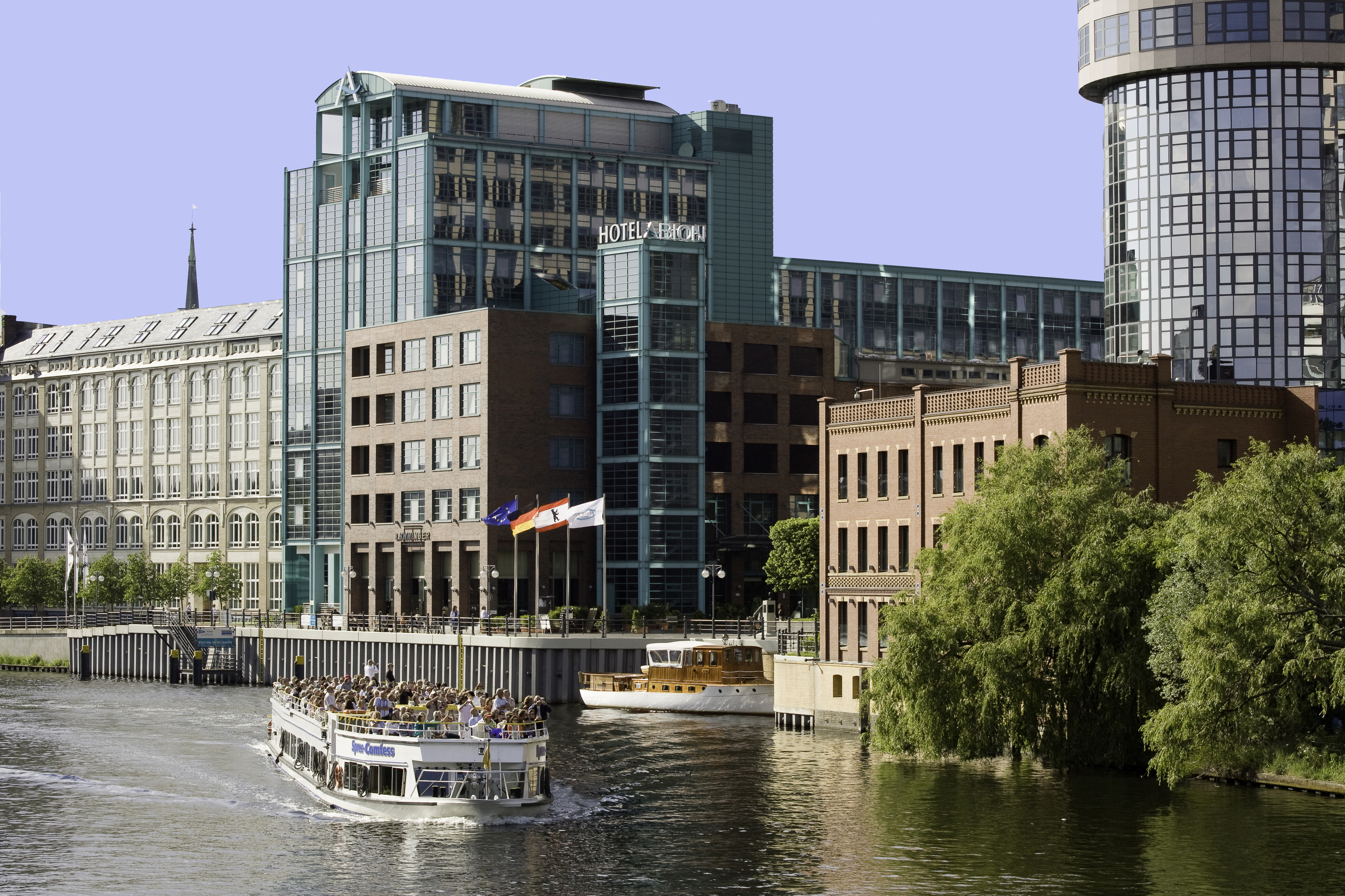 Außenansicht Hotel Abion Spreebogen Berlin